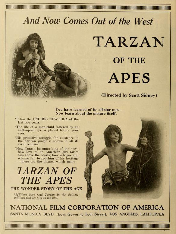 Advertisement in Moving Picture World, Jan 1918 for Tarzan of the Apes (1918).